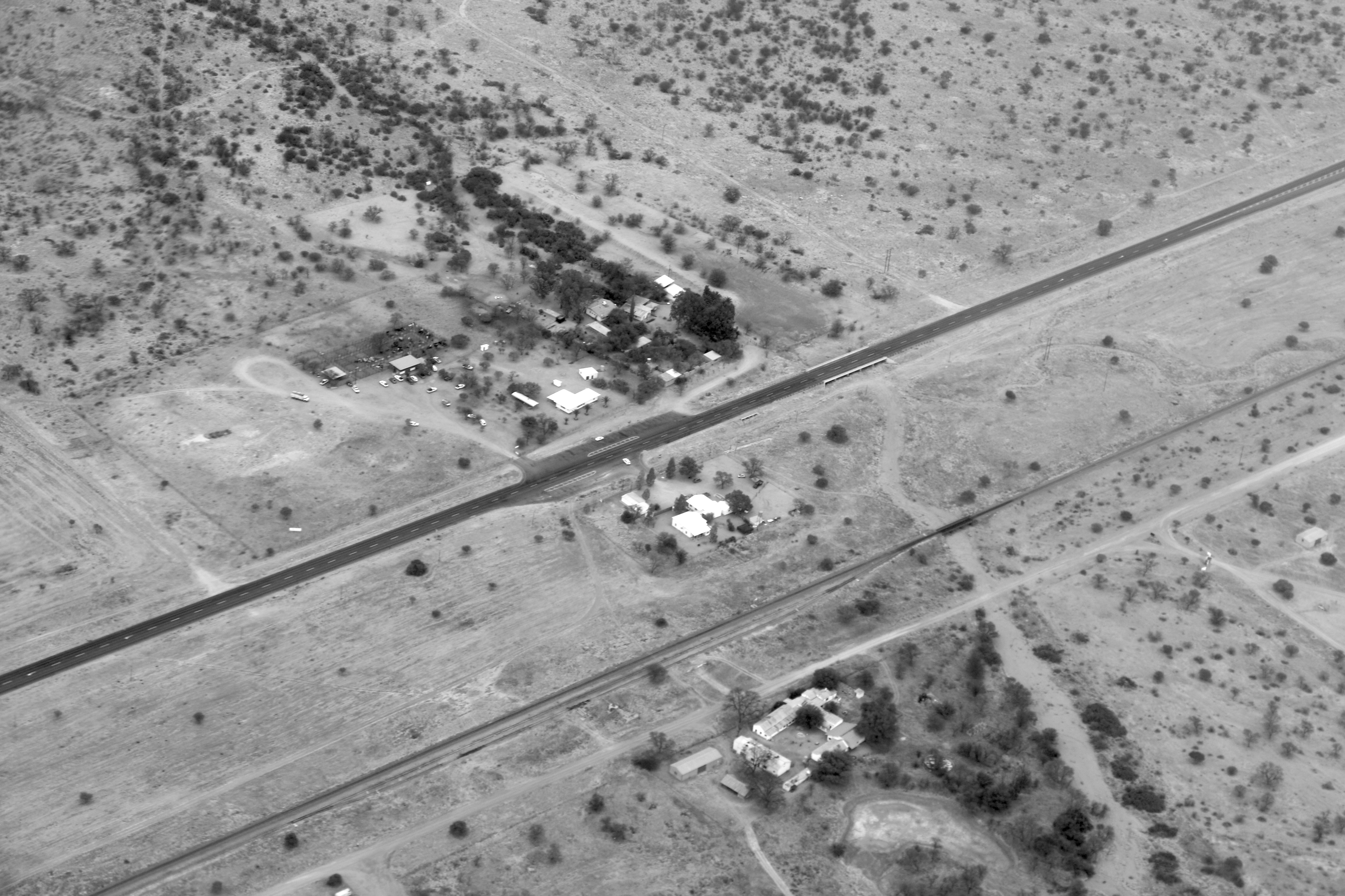 Aerial view of Wilhelmstal